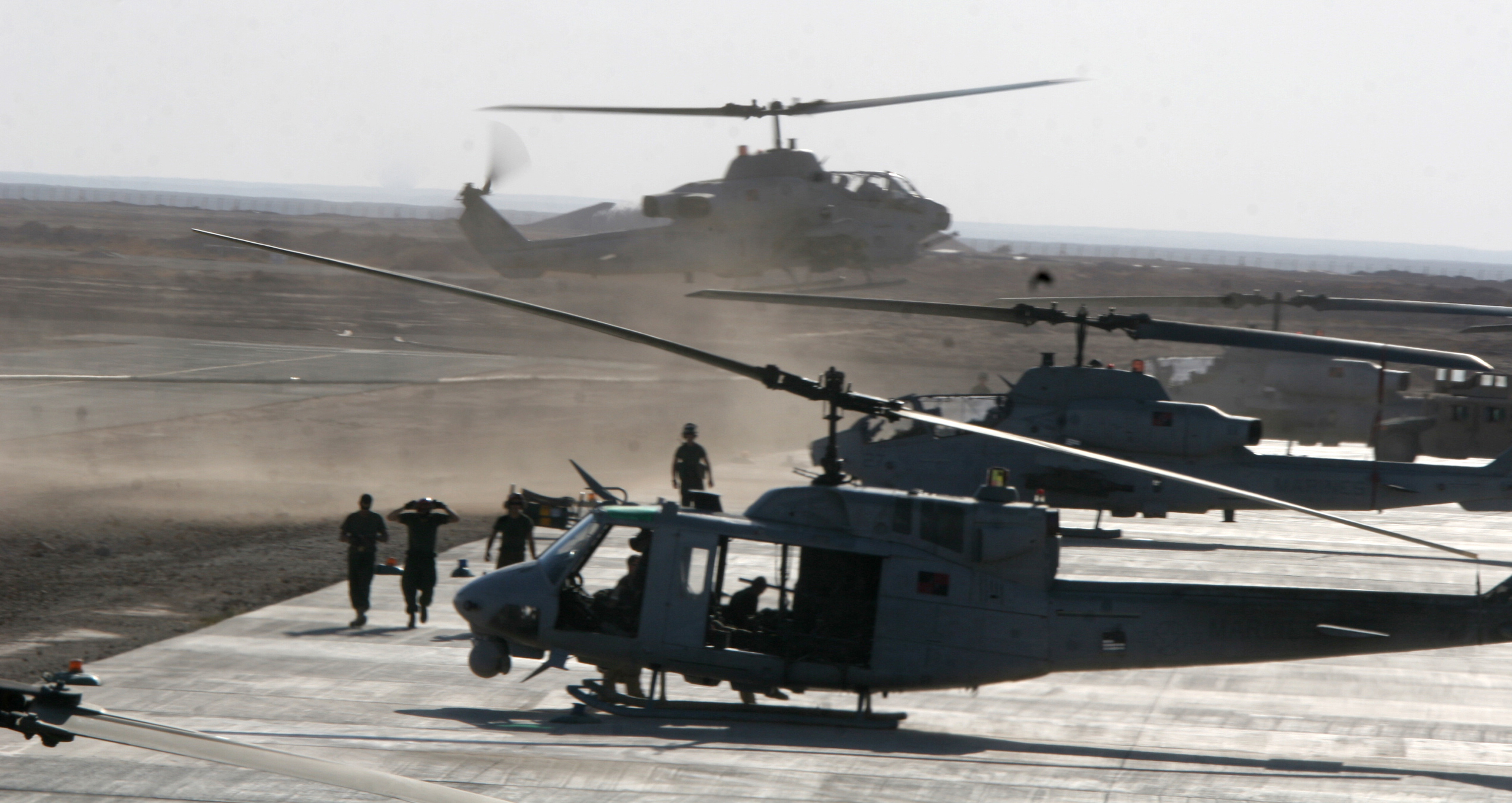 A U.S. Marine Corps Bell AH-1W SuperCobra from Marine Light Attack Helicopter Squadron 167 Warriors, lands at Al Asad Air Base, Iraq, on 6 August 2008 following training with 1st Air Naval Gunfire Liaison Company. In the foreground is a Bell UH-1N Twin Huey.